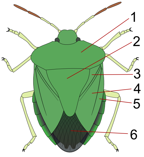 Morphology of dorsal side of shield bugs (Rhynchota: Pentatomoidea). See legend below.